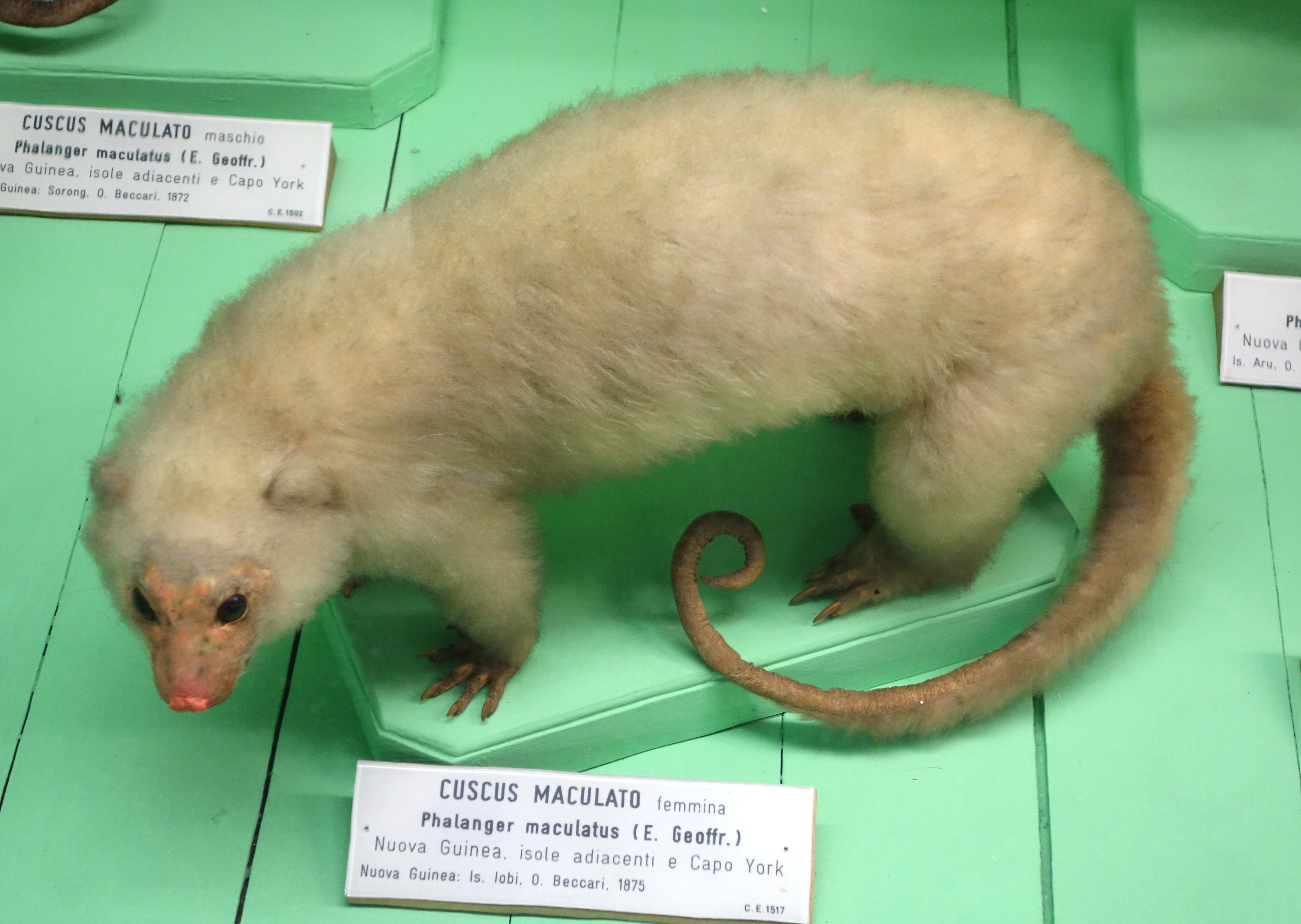 Exhibit in the Museo Civico di Storia Naturale di Genova, Via Brigata Liguria, 9, 16121, Genoa, Italy.